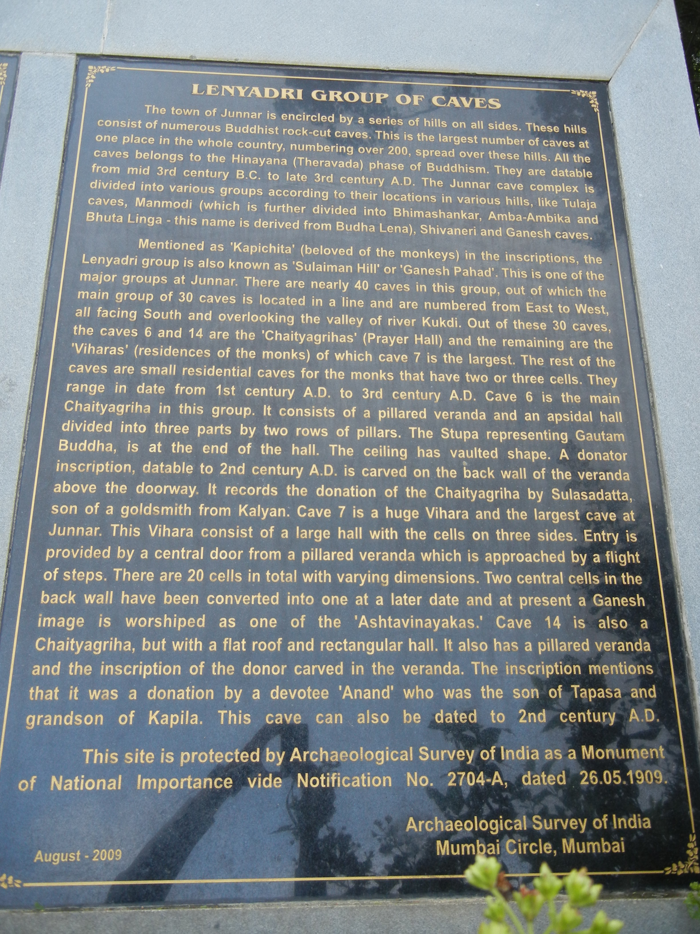 Description about Lenyadri Group Of Caves in English